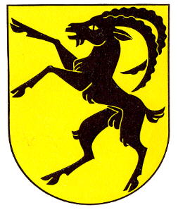 Coat of arms of Zihlschlacht-Sitterdorf, Canton of Thurgau, SwitzerlandEsperanto: Blazono de Zihlschlacht-Sitterdorf, Kantono Turgovio, Svislando